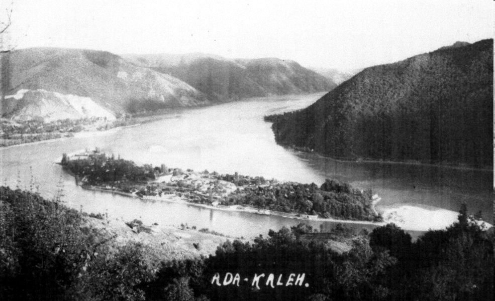 Island of Ada Kaleh toward the end of the 19th century